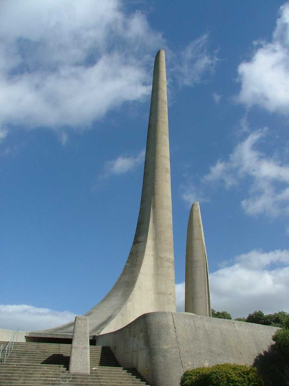 Afrikaans Language Monument, near Paarl, South Africa.